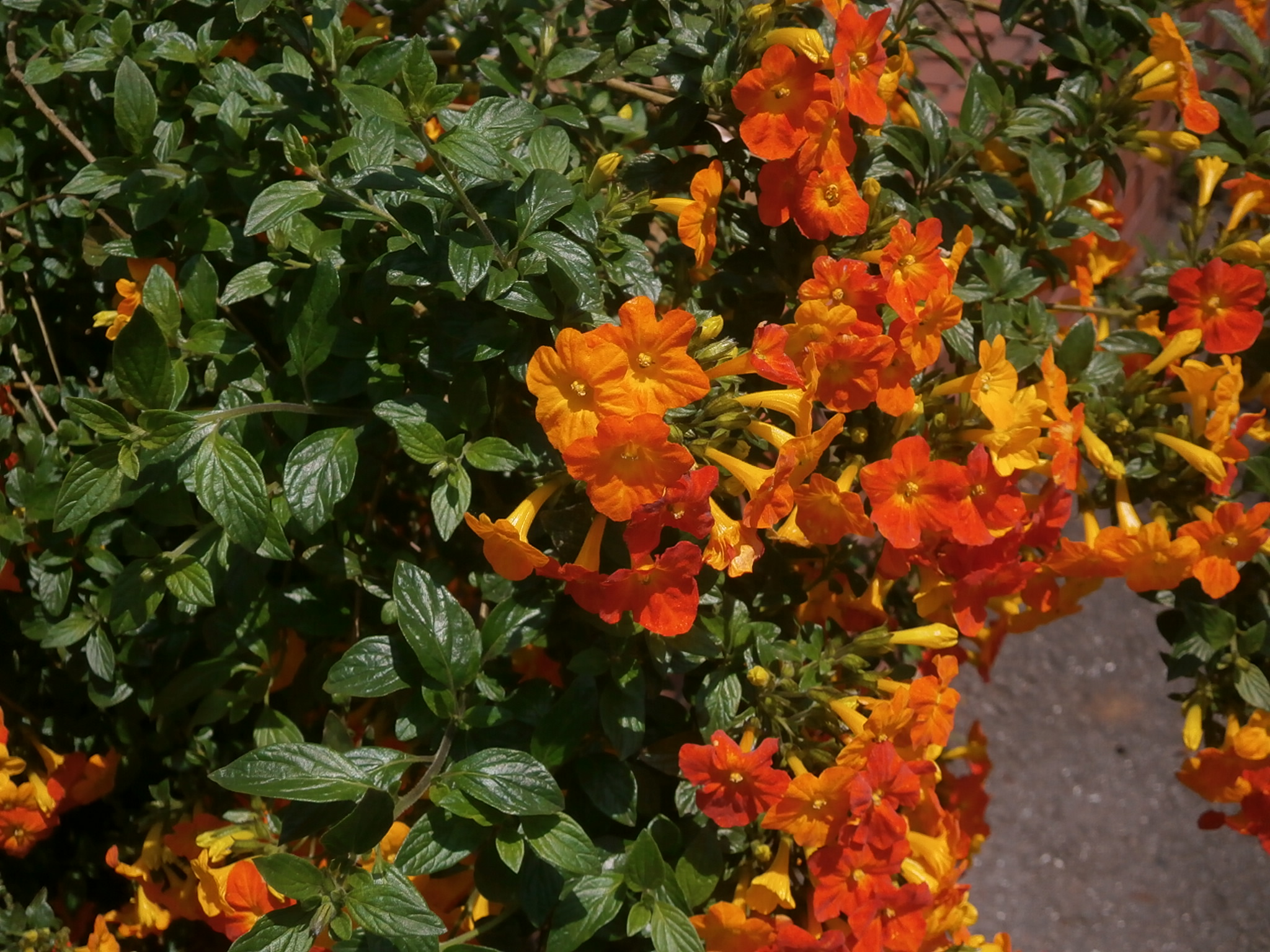 Streptosolen jamesonii